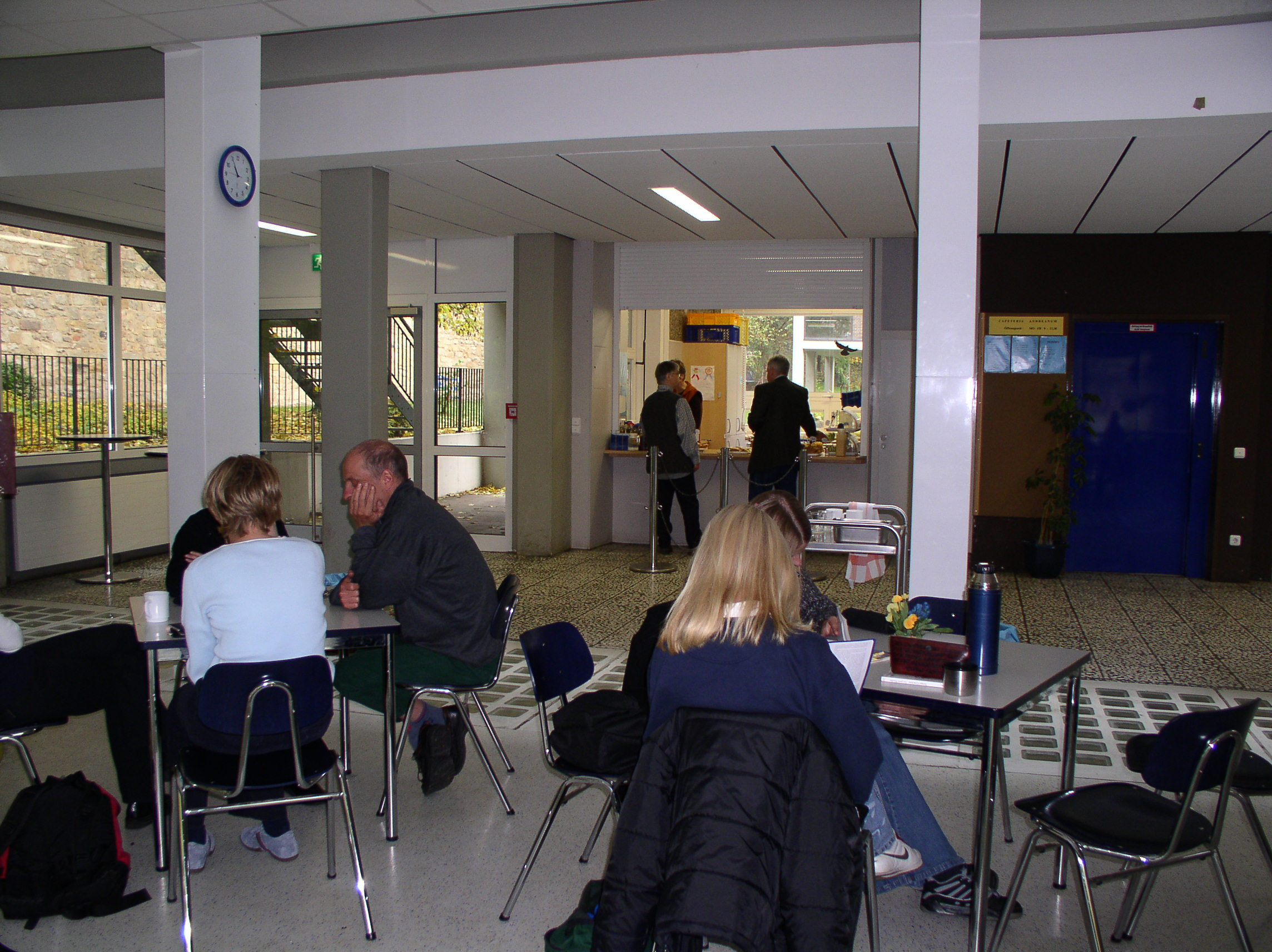 Cafeteria of Gymnasium Andreanum, Hildesheim